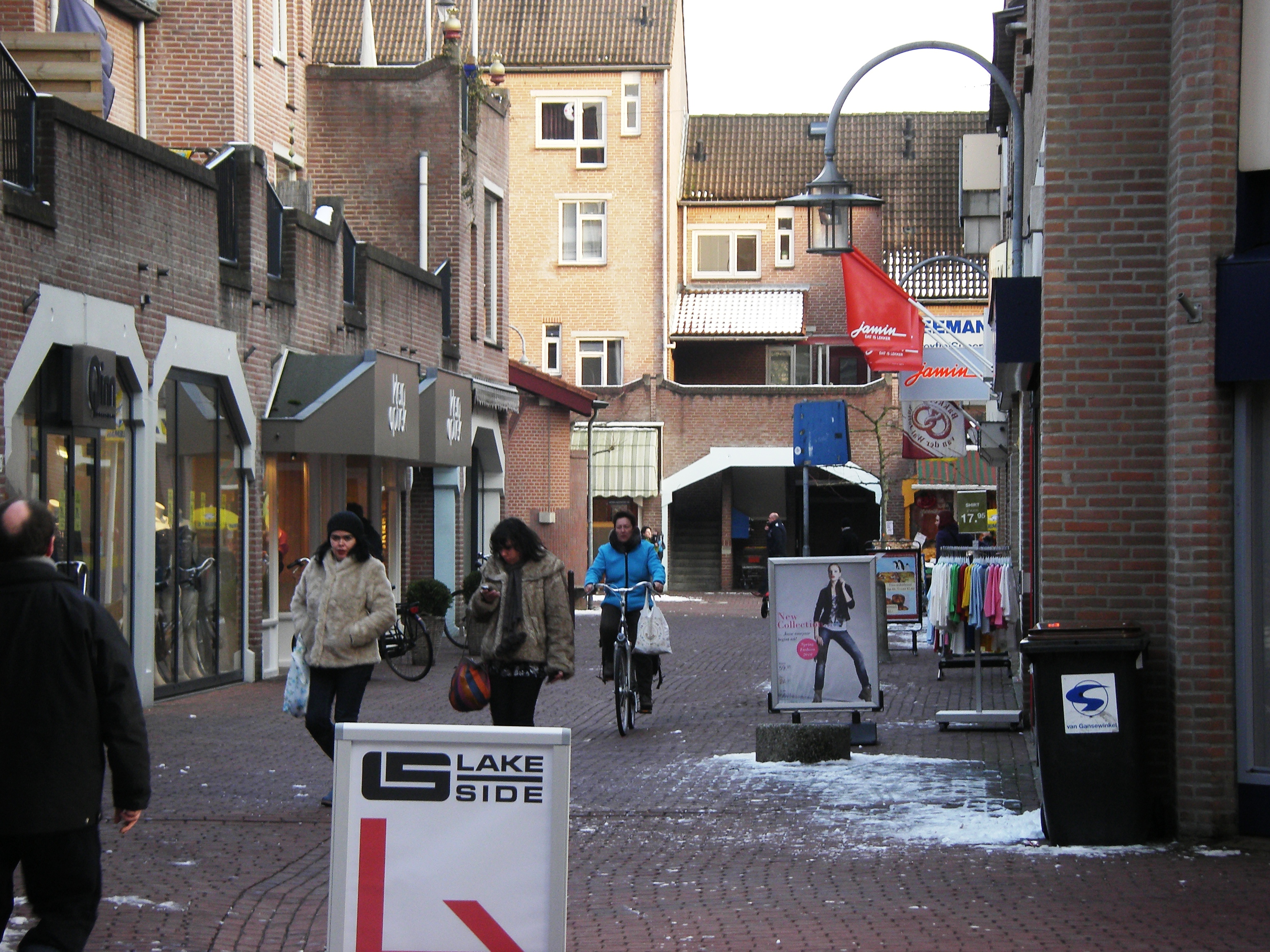 shopping centre de Eglantier, Apeldoorn